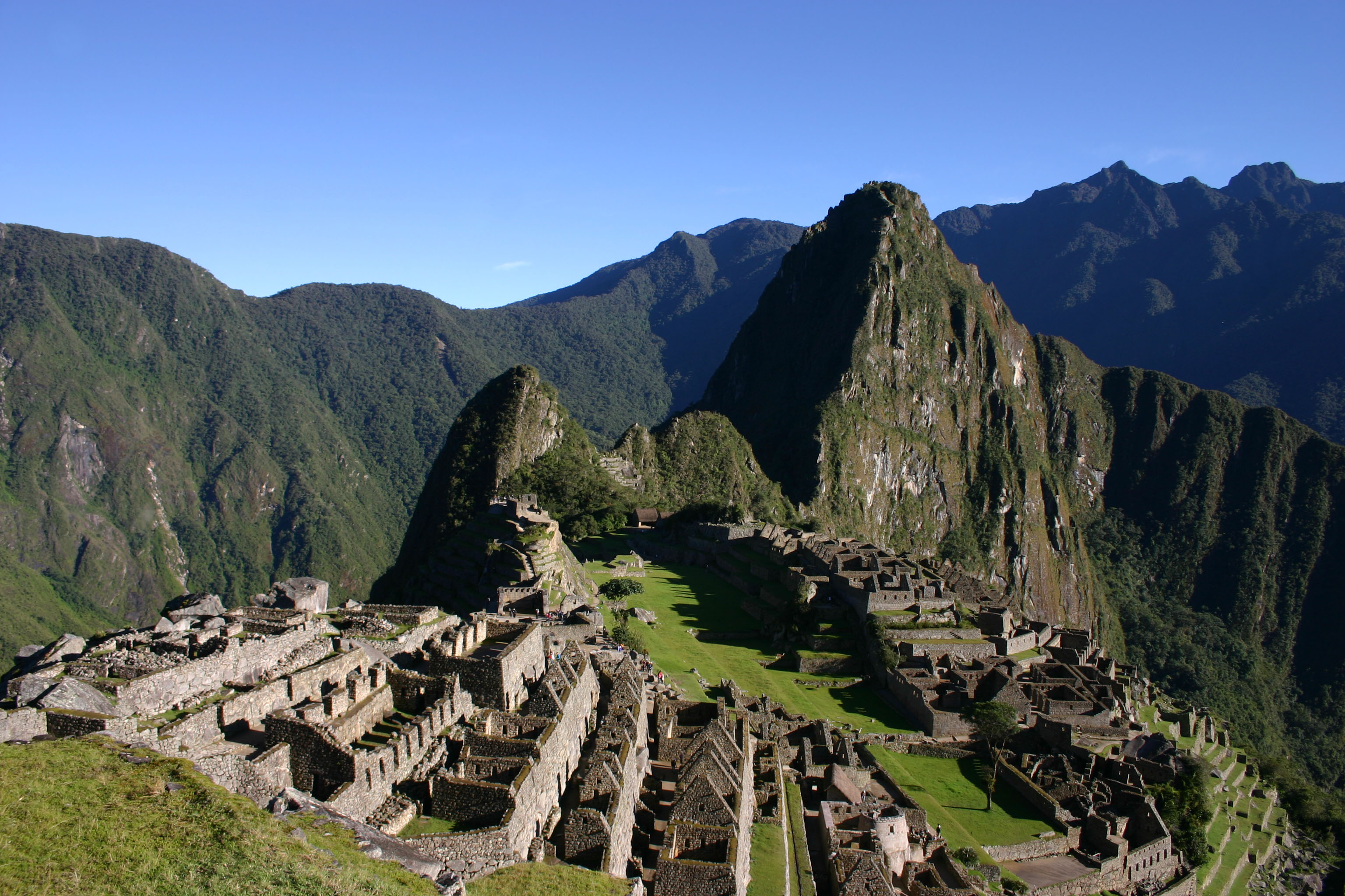 Machu Picchu shortly after sunrise. Photograph taken at 7.20am.